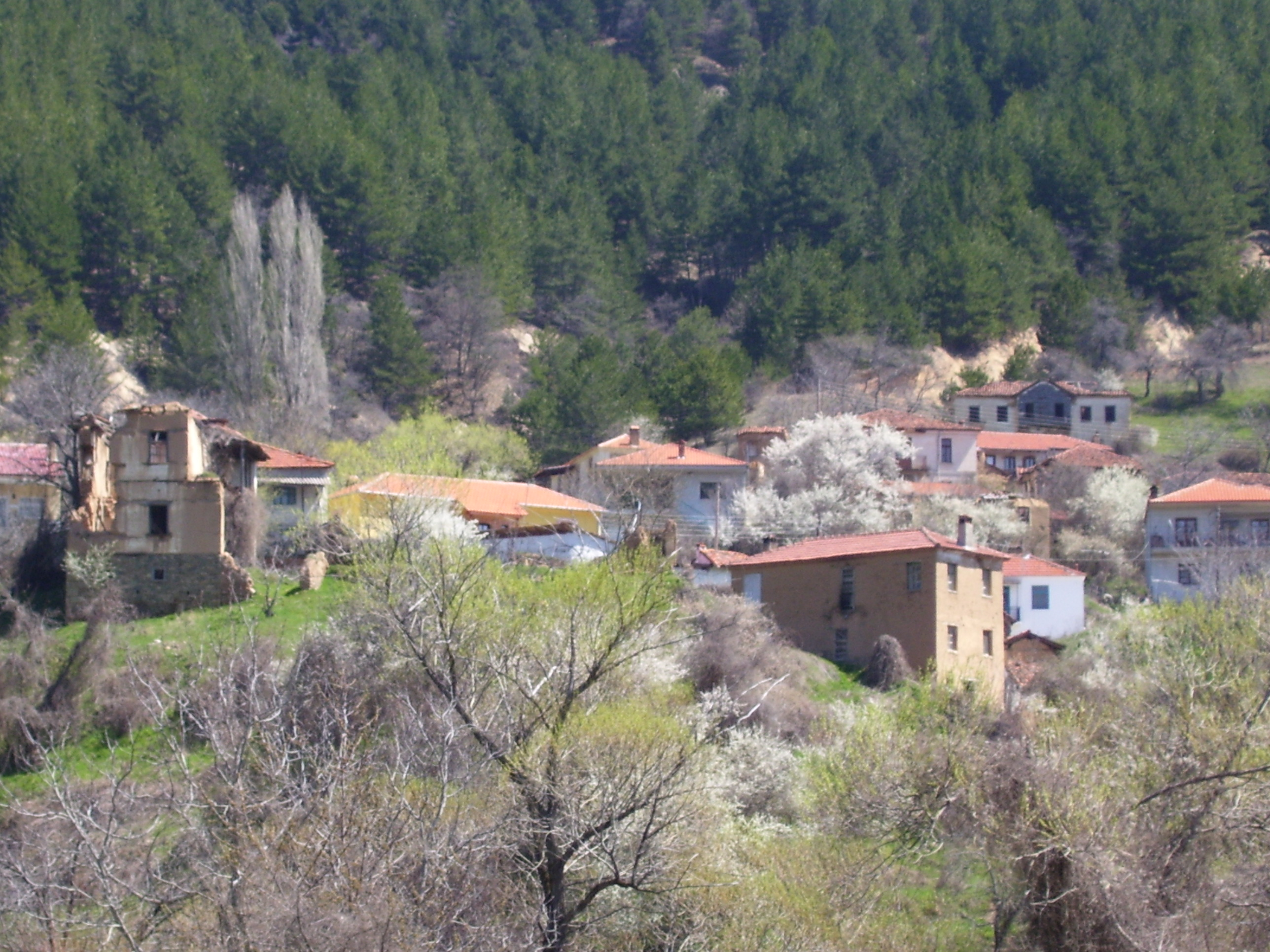 Village of Andartiko, Greece.